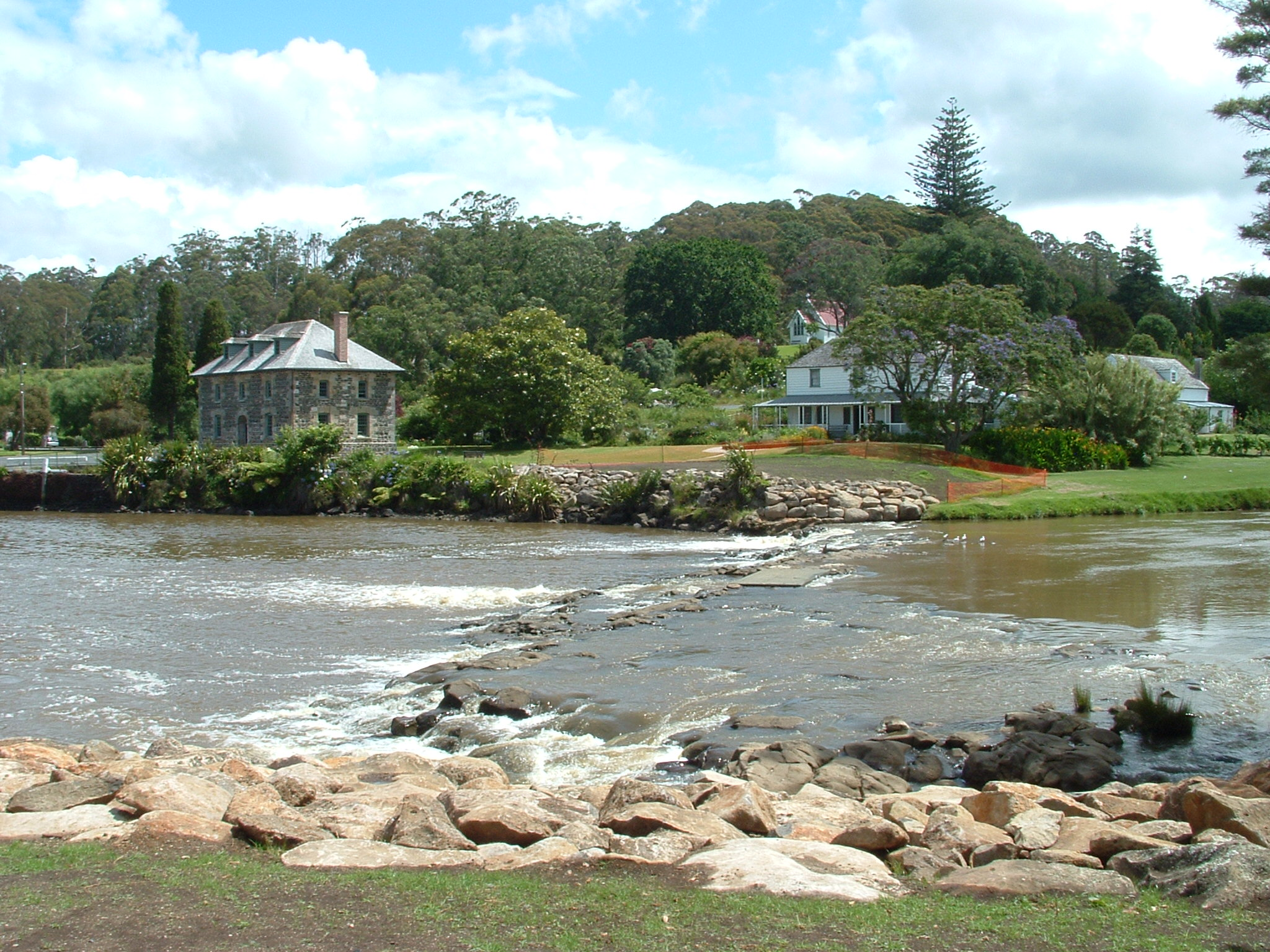 Photo of point where Kerikeri River meets the Pacific Ocean at the top of the Kerikeri Inlet in the Bay Of Islands, New Zealand The old stone store bridge was located for decades where the ford can be seen, but was removed late in 2008. Photo by User:Kaiwhakahaere, and released PD